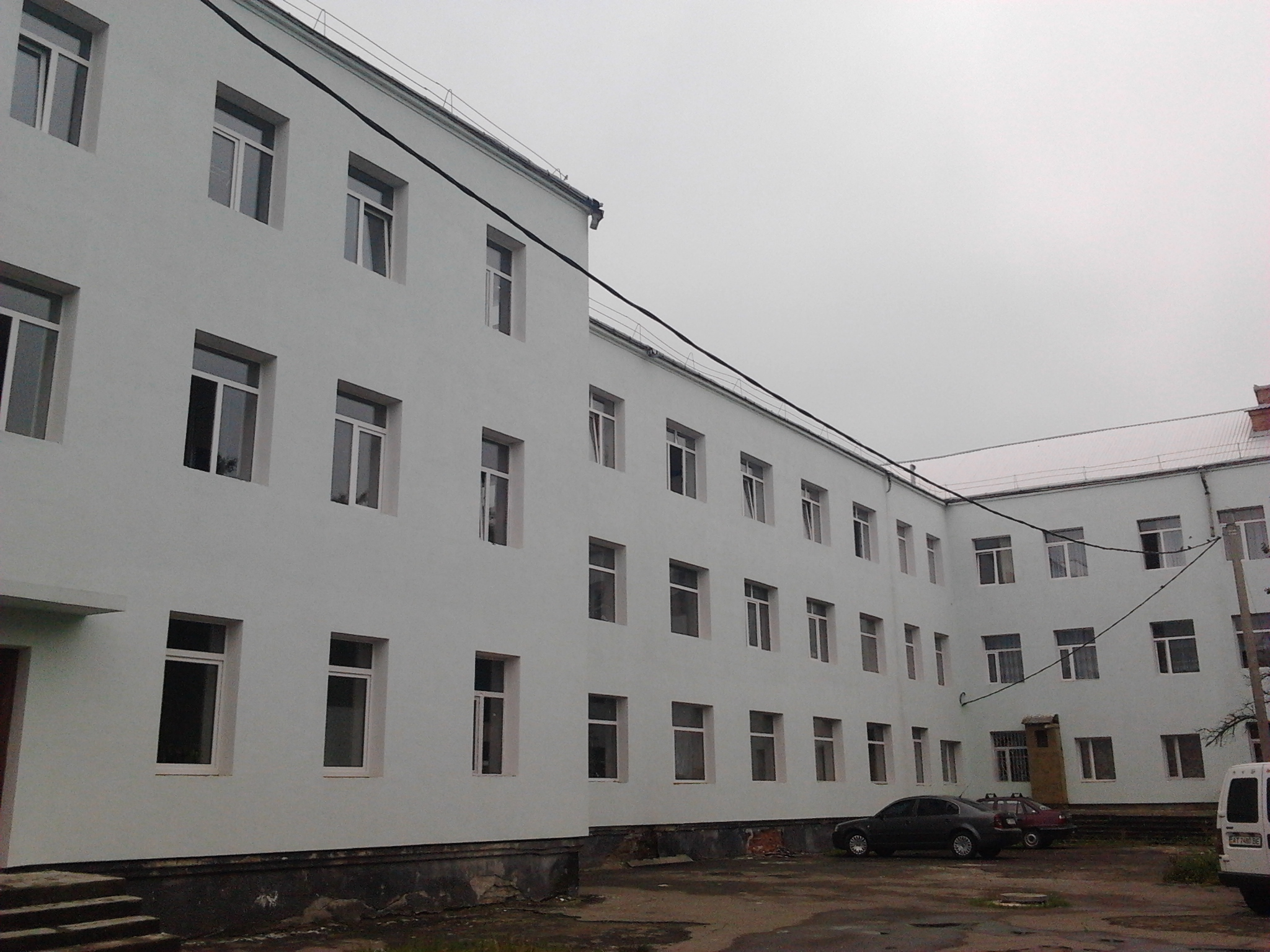 Калуська районна лікарня